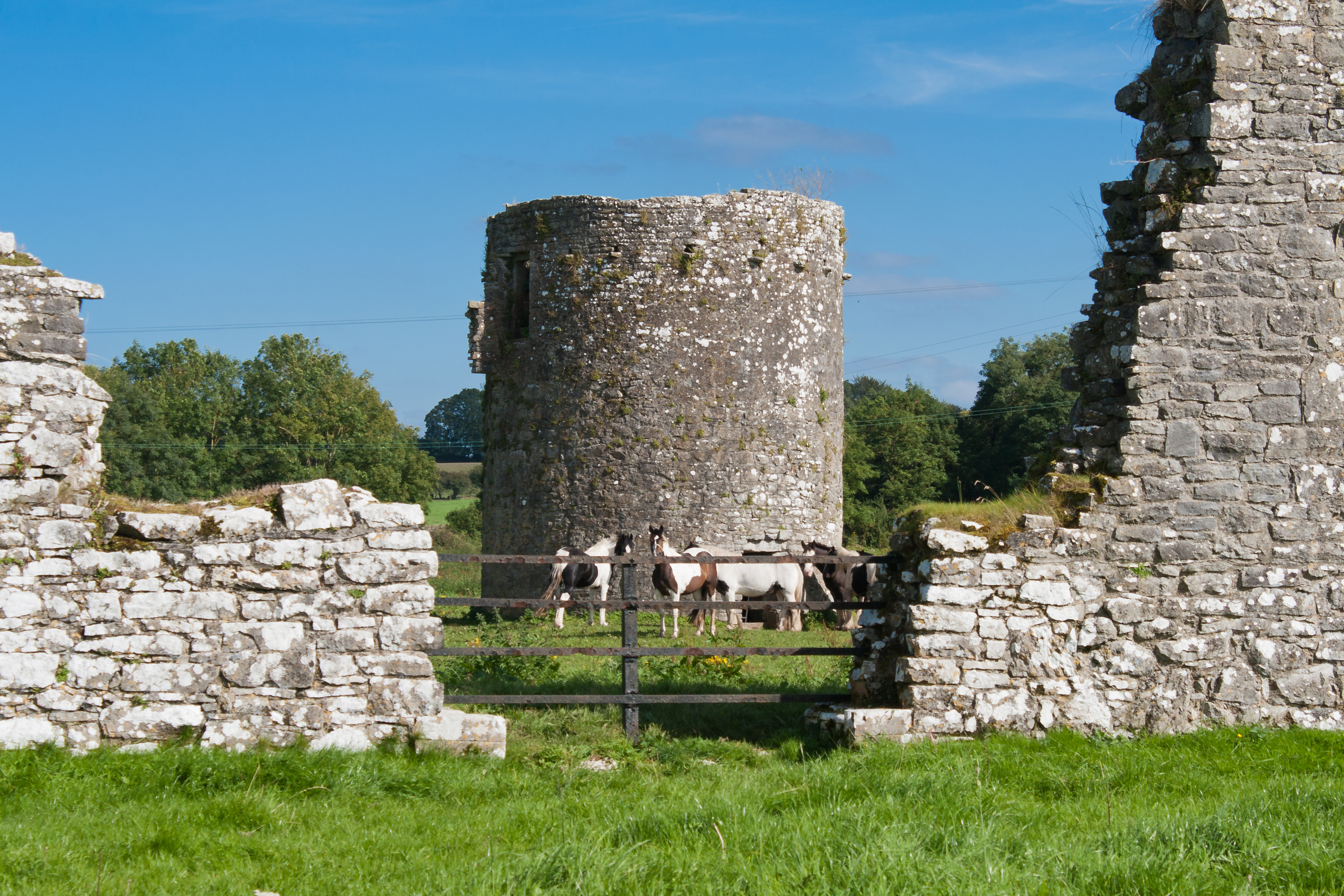 Columbarium tower (dovecote), as seen from the cloister, looking west.